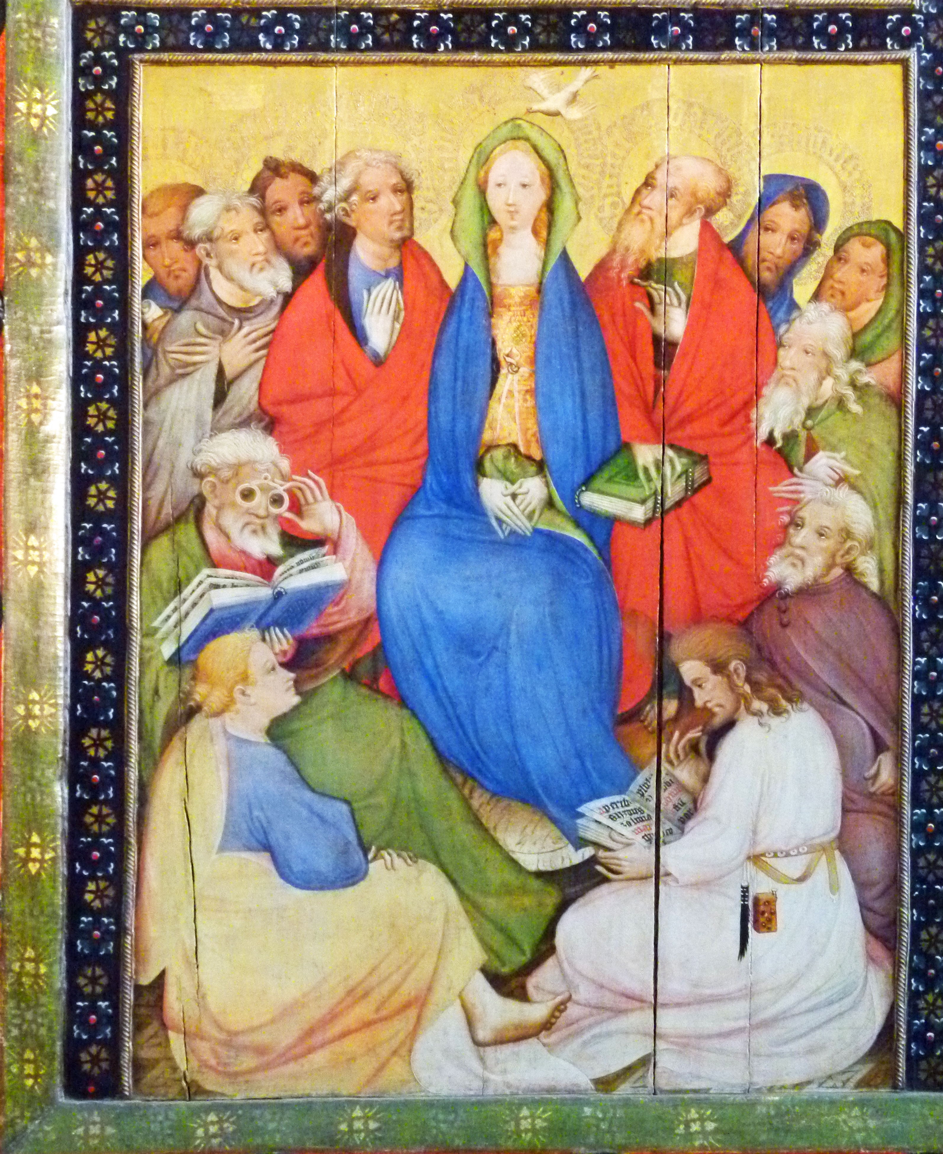 Pentecost, panel from the Wildunger Altarpiece of Konrad von Soest